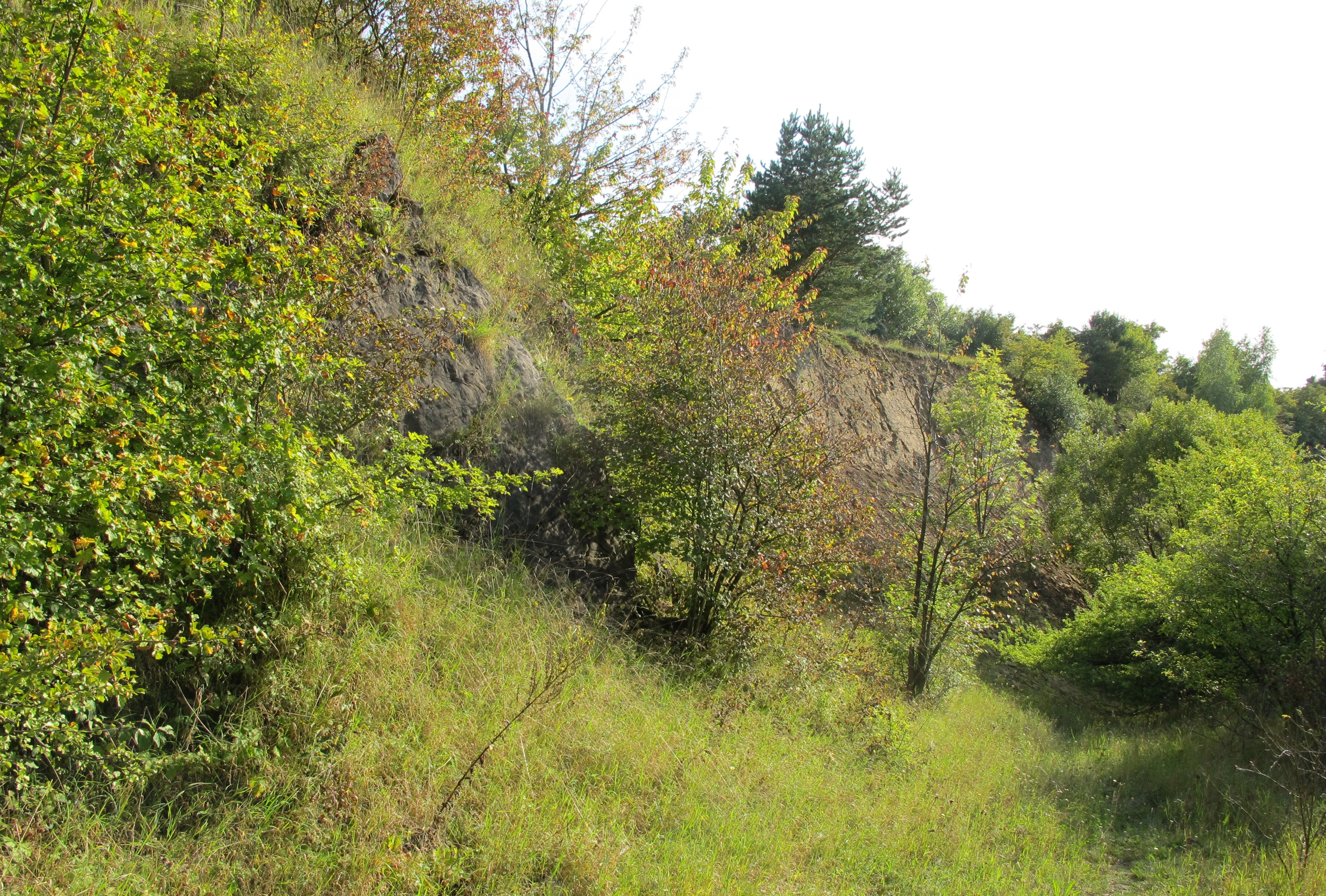 Natural monument Lom Kozolupy near villages Kozolupy, Bubovice and Mořina, Beroun District in Czech Republic